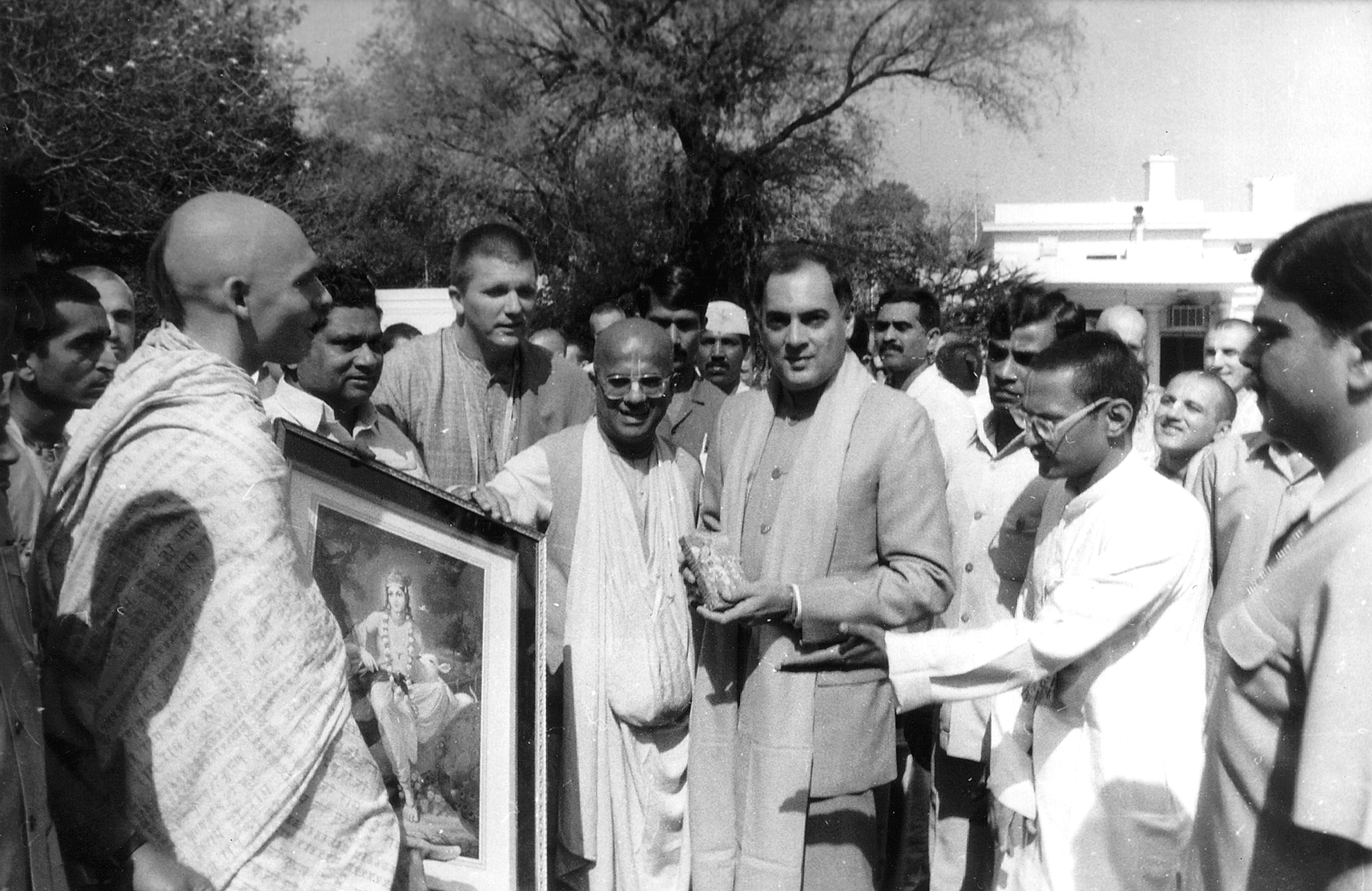 Indian Prime Minister Rajiv Gandhi receives from Soviet Hare Krishnas a copy of Bhagavad Gita As It Is in Russian. New Delhi 1989.